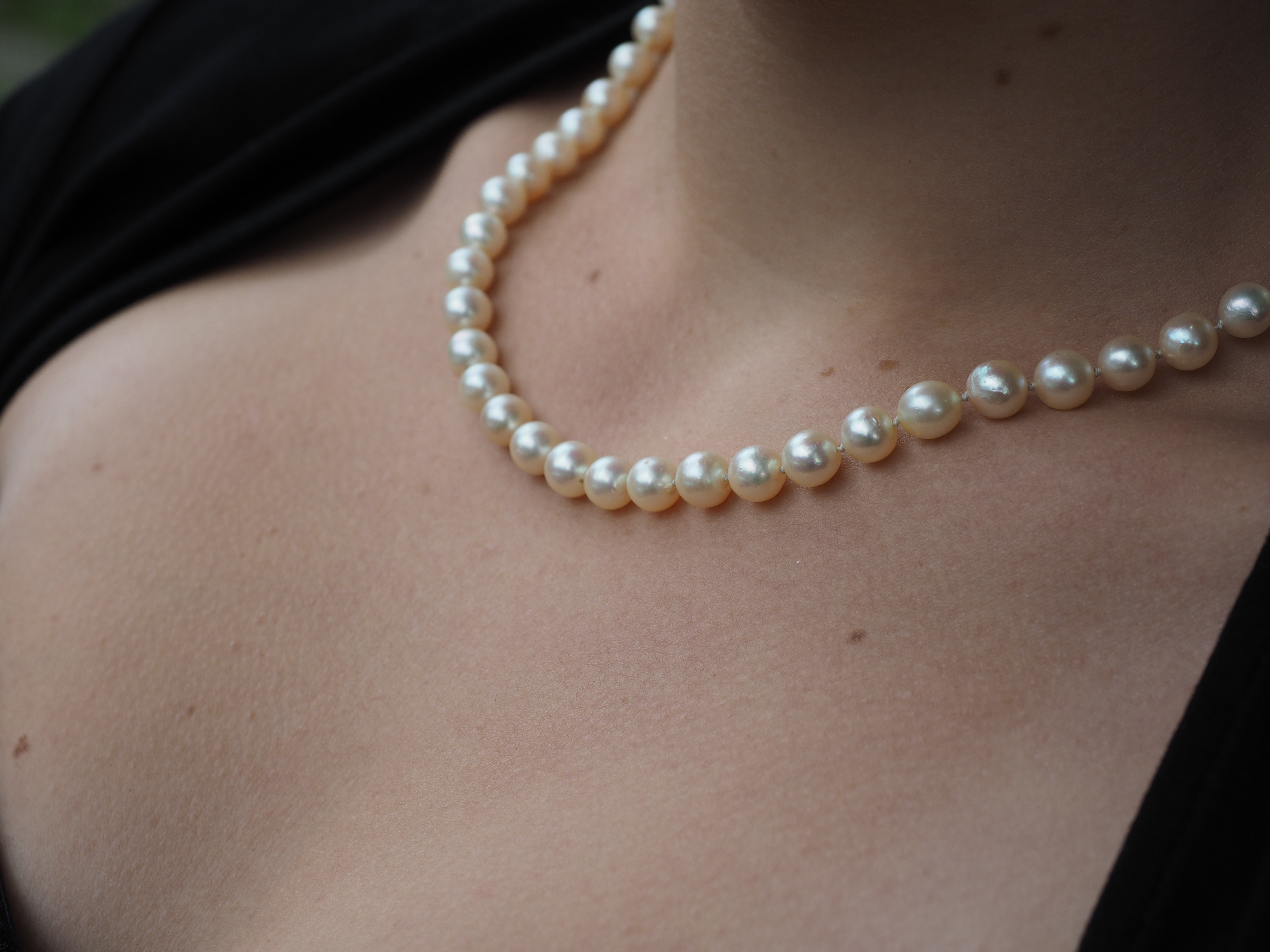 necklace